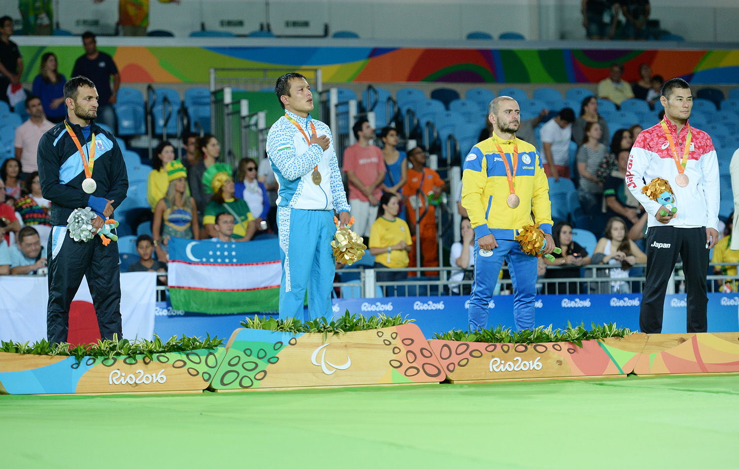 Judo at the 2016 Summer Paralympics – Men's 66 kg. Awarding ceremony